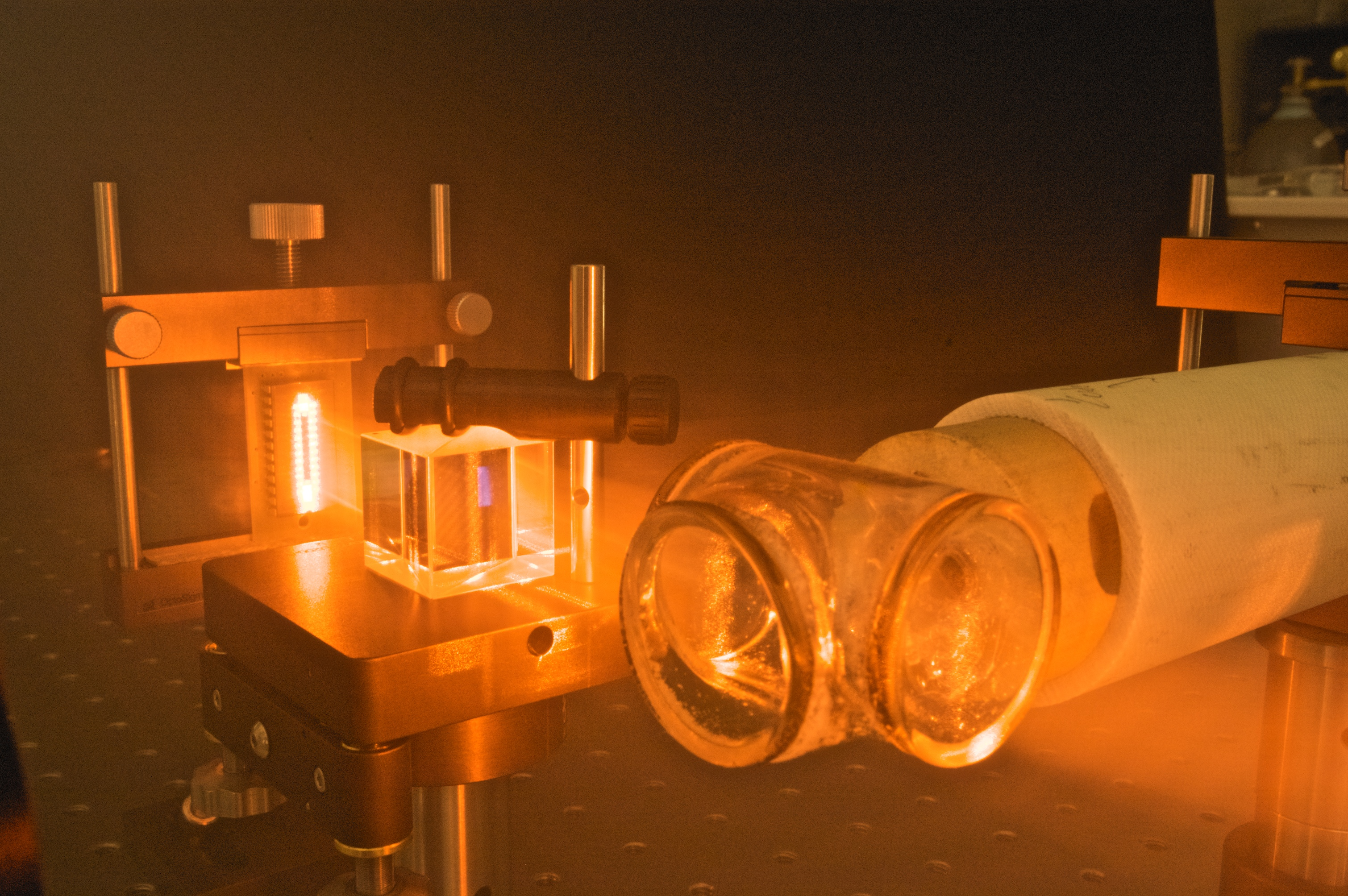 Mockup SERF vector magnetometer using components used in the actual setup. A real magnetometer would include non-magnetic supports and magnetic shields.